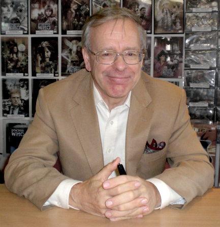 John Leeson at The Television & Movie Store, Norwich on 20th September 2008.